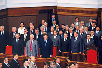 First Yanukovych Government the Ukrainian Verkhovna Rada